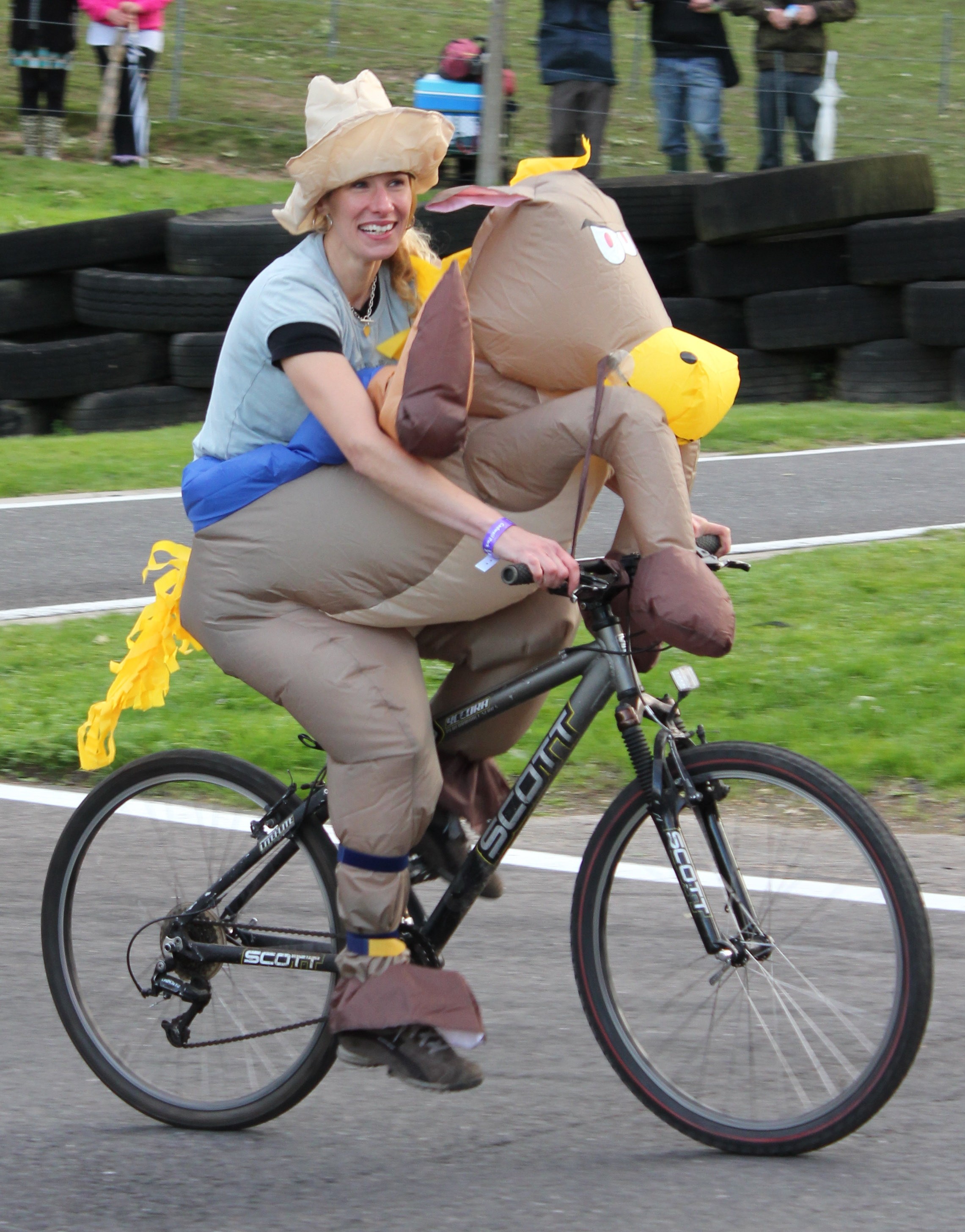 British Superbike rider Jenny Tinmouth approaching the Mountain section during a charity bicycle mass-gathering at Cadwell Park, Lincolnshire in 2010, a traditional happening during the August race meeting